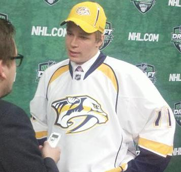 Nashville Predators second round pick Miika Salomaki talks to the media following the 2011 NHL Entry Draft in St. Paul, Minnesota.